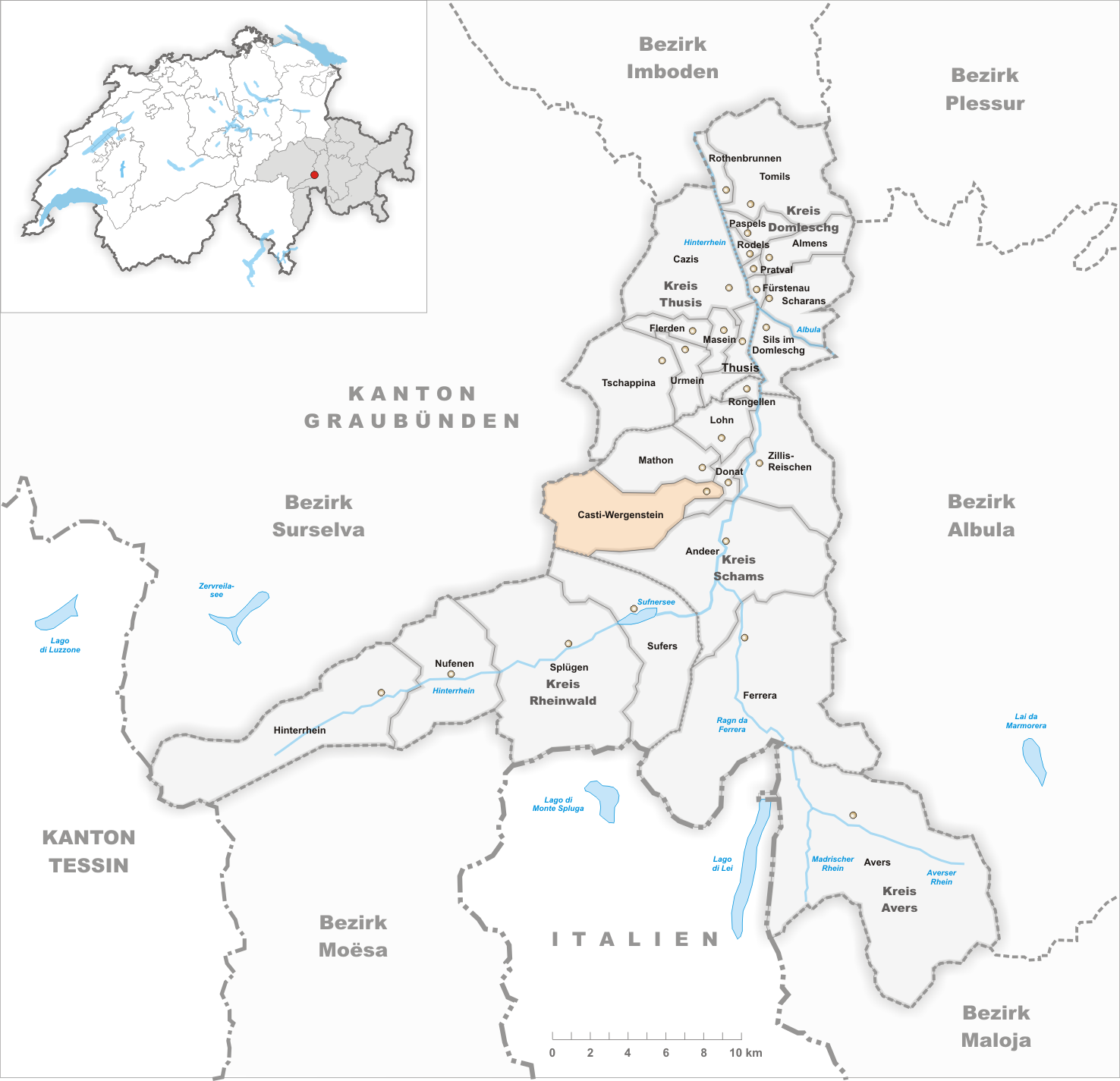 Municipality Casti-Wergenstein